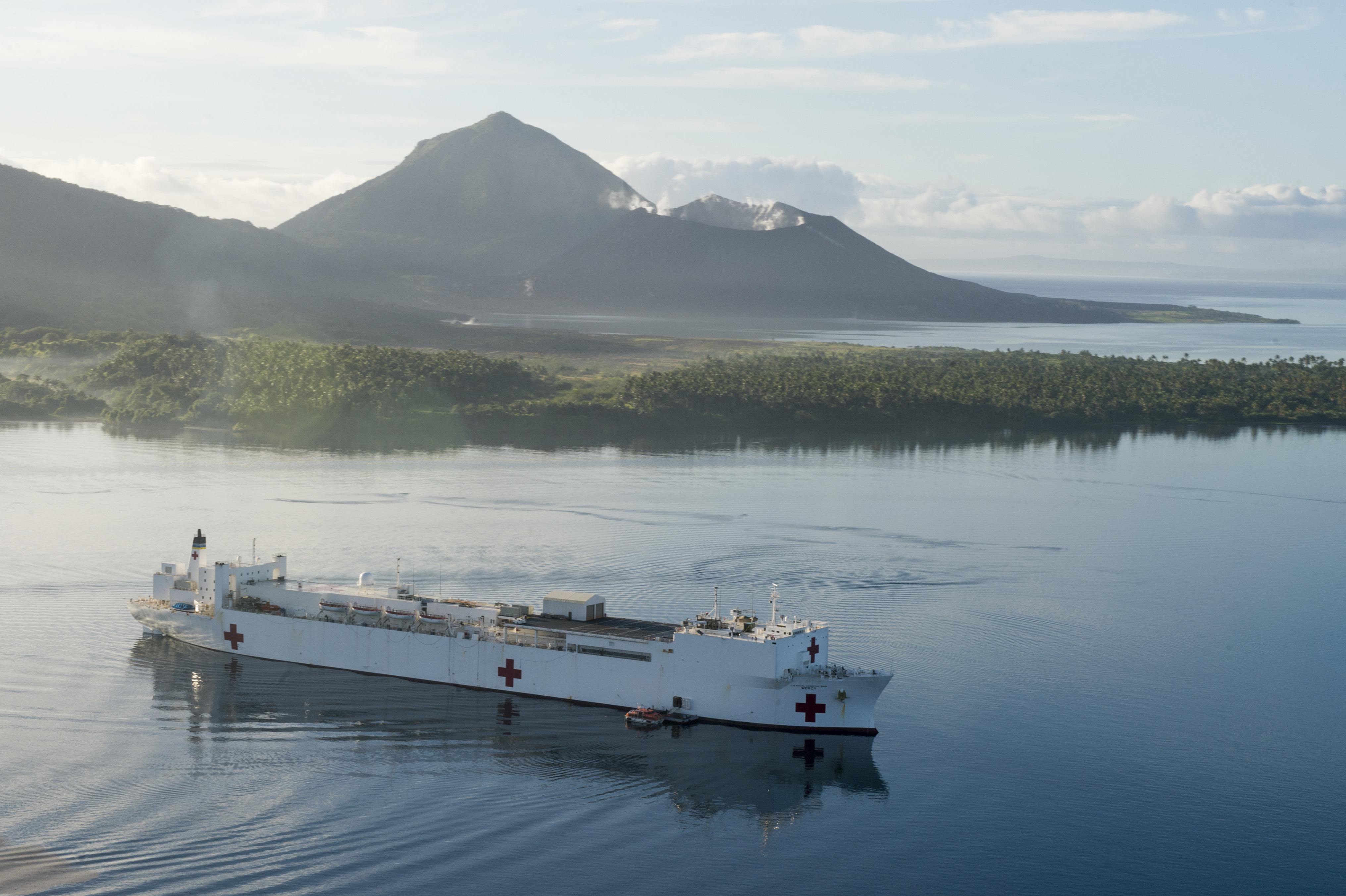 RABAUL, Papua New Guinea (July 6, 2015) The hospital ship USNS Mercy (T-AH 19) sits at anchorage in Simpson Harbor off the coast of Rabaul, Papua New Guinea. Mercy is currently in Papua New Guinea for its second mission port of Pacific Partnership 2015. Pacific Partnership is in its 10th iteration and is the largest annual multilateral humanitarian assistance and disaster relief preparedness mission conducted in the Indo-Asia-Pacific region. While training for crisis conditions, Pacific Partnership missions to date have provided real world medical care to approximately 270,000 patients and veterinary services to more than 38,999 animals. Additionally, the mission has provided critical infrastructure development to host nations through more than 180 engineering projects. (U.S. Navy photo by Chief Mass Communication Specialist Christopher E. Tucker/Released)